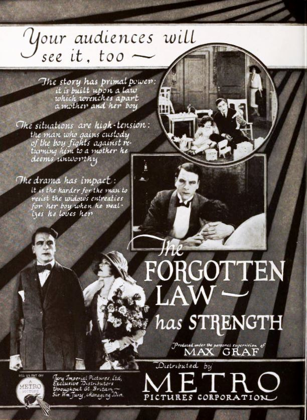 Advertisement for the American drama film The Forgotten Law (1922), from the insert after page 16 of the December 30, 1922 Exhibitors Trade Review.